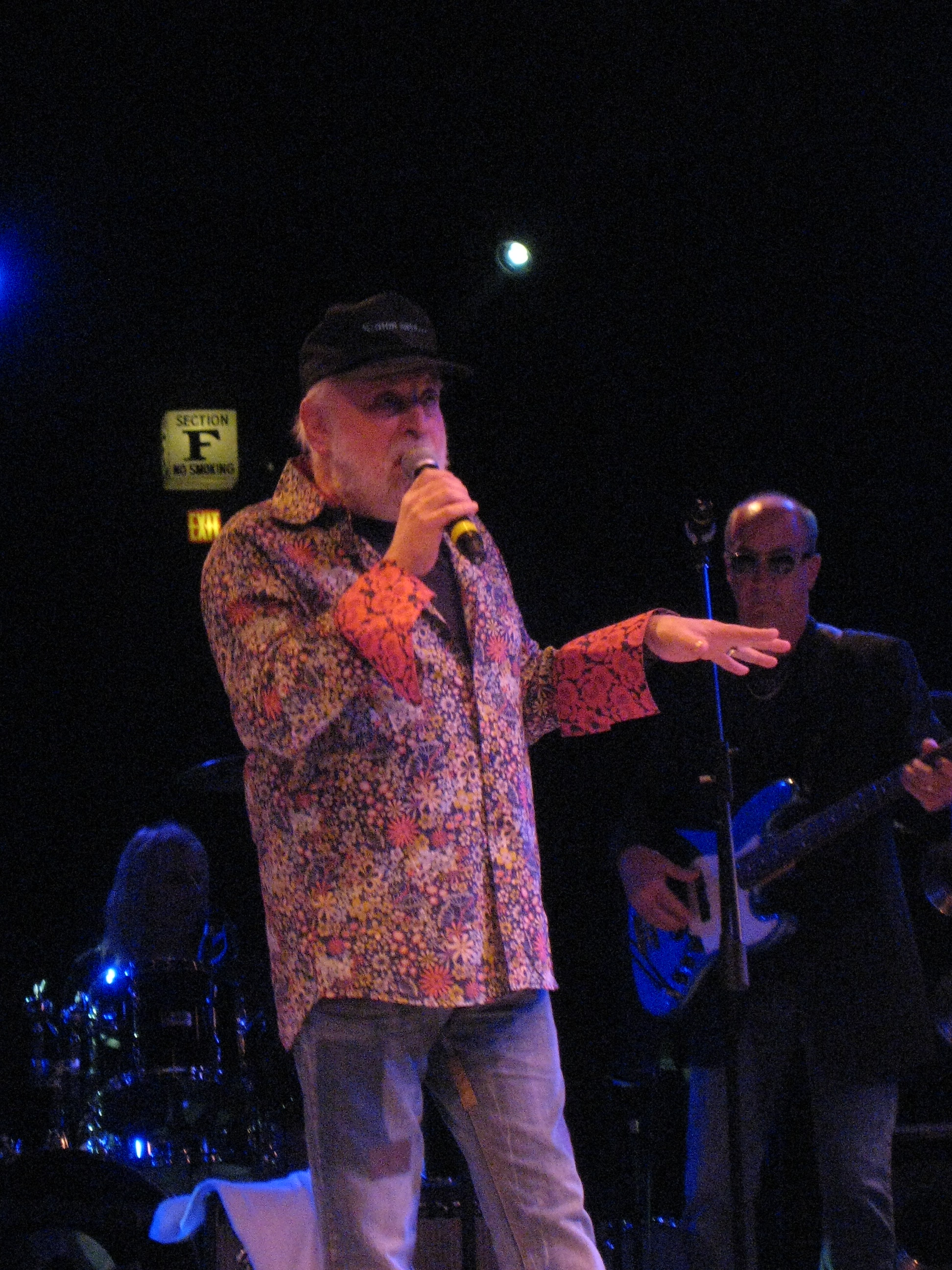 Howard Kaylan, formerly of The Turtles in concert in Westbury, NY, 2008